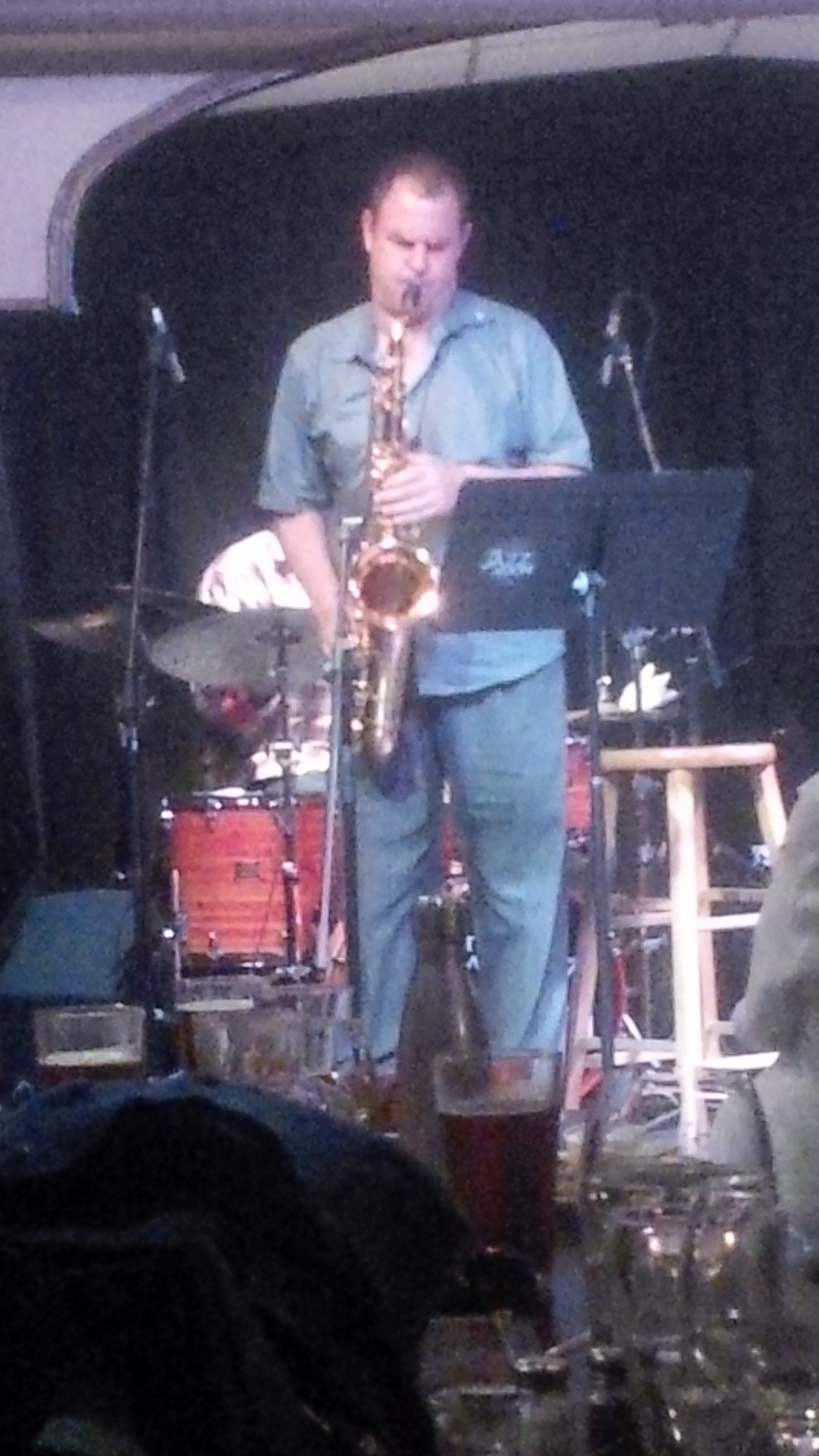 Phil Dwyer performing with Robi Botos at the Jazz Room in Waterloo, ON on 24 June 2015.